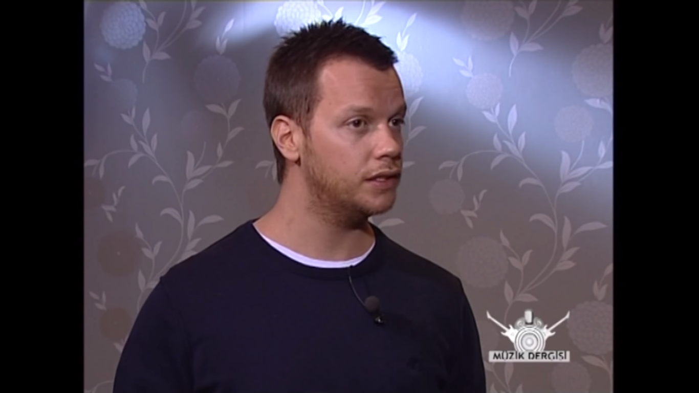 Turkish singer-songwriter Sinan Akçıl interviewing with Şafak Karaman about 2009 Turkish Eurovision entry called "Düm Tek Tek".